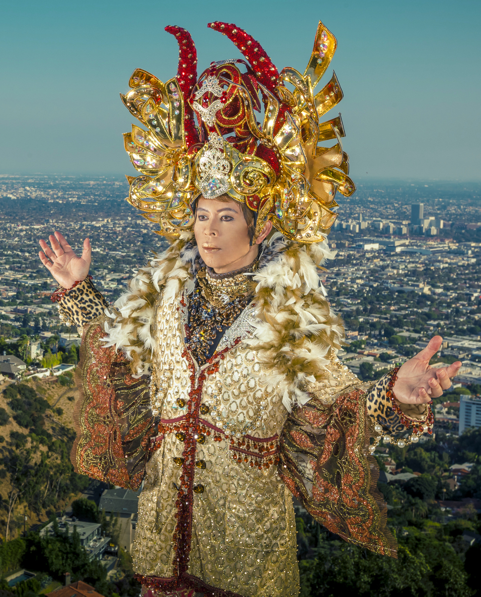 Bobby Love Couture Venice Carnevale Suite